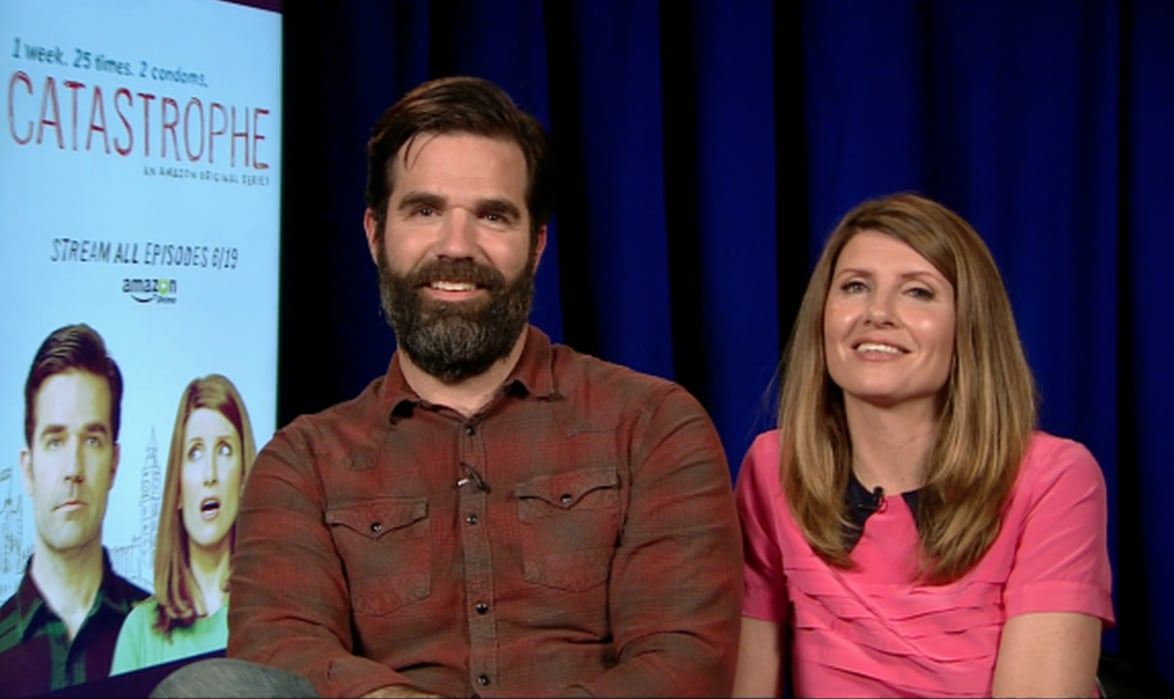 Rob Delaney and Sharon Horgan, creators and costars of the British television situation comedy Catastrophe, interviewed by The Trending Report.